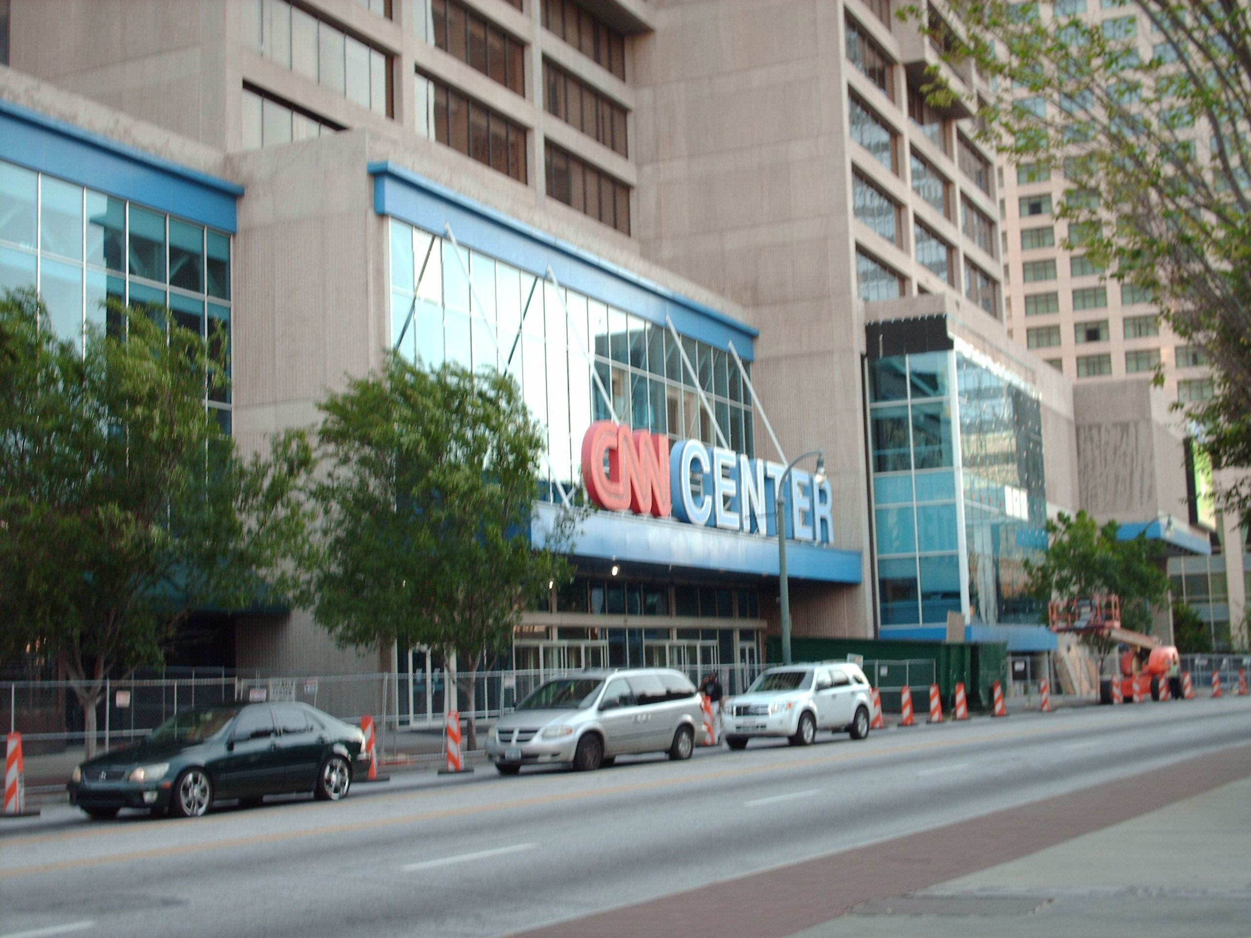 The CNN Center, located at the 150 block of Marietta Street NW. Notice that after the 2008 Downtown tornado that the front entrance to the CNN Center is closed.